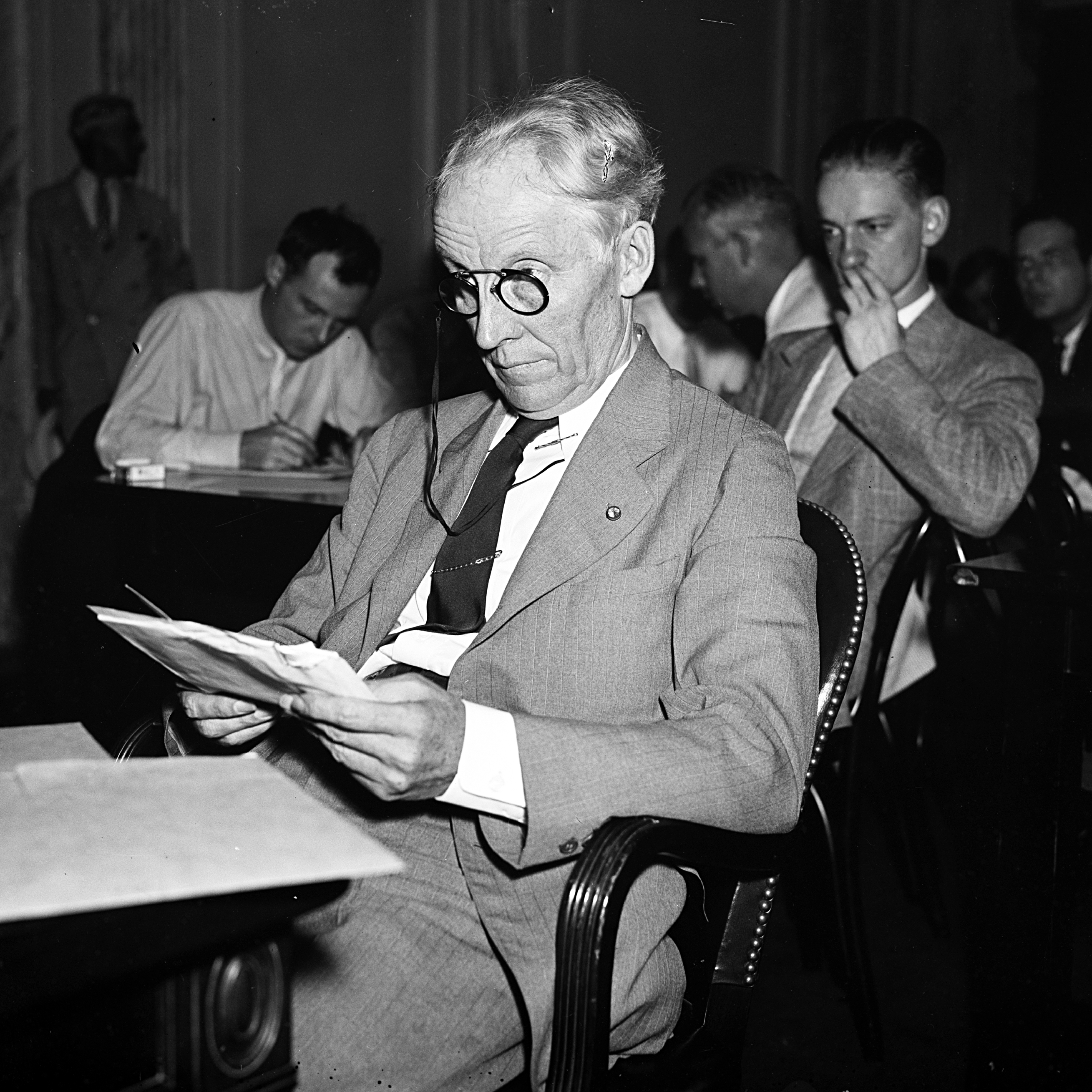 Denis J. Driscoll, US Representative from Pennsylvania